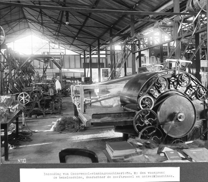 Coconut fibre machines at the exhibition during the fibre congress in Surabaya